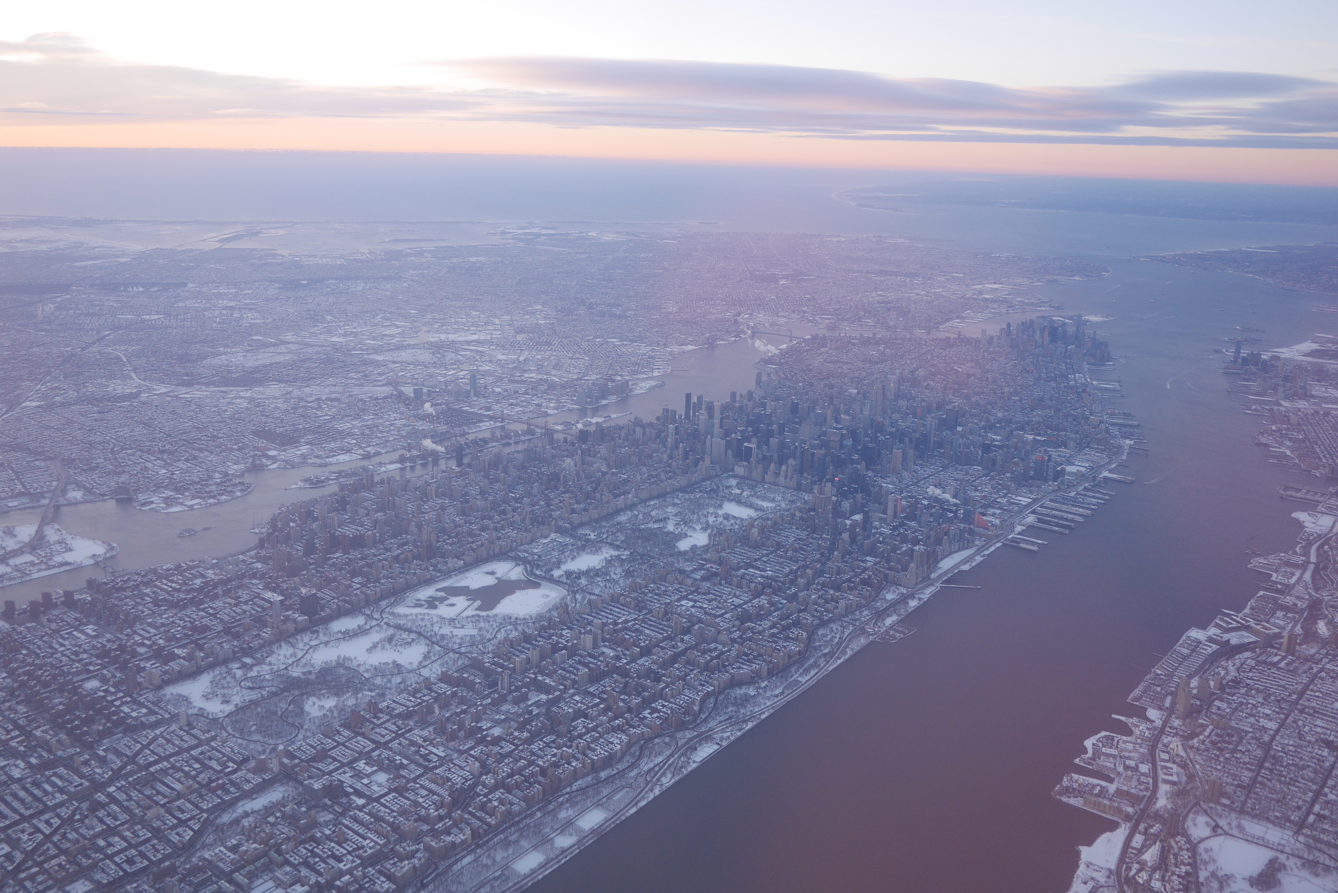 New York areal late January 2015.